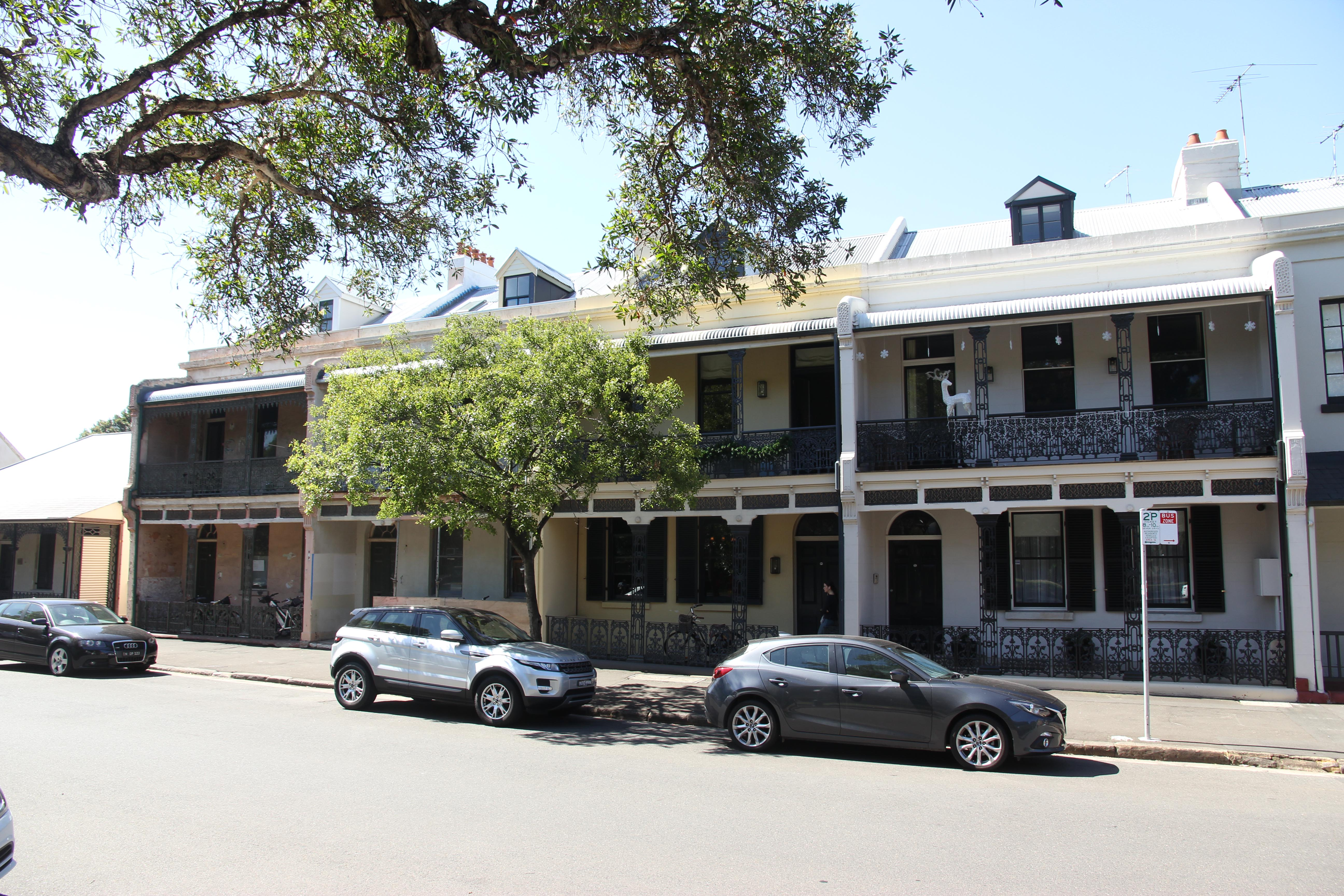 Part of Undercliffe Terrace, 52-58 Argyle Place, Millers Point, City of Sydney, New South Wales, Australia